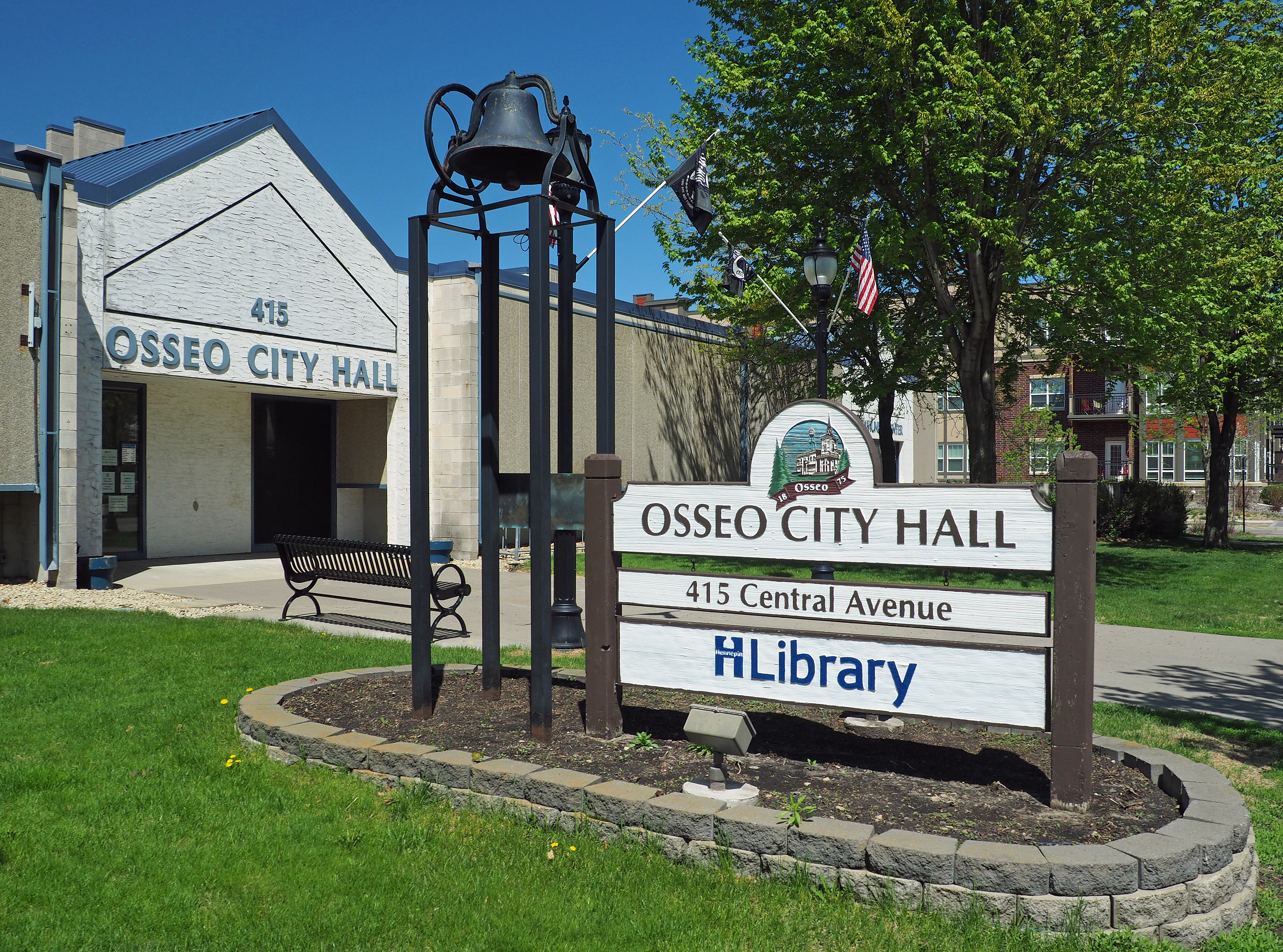 Osseo City Hall & Library, 415 Central Ave, Osseo, Minnesota, USA. Viewed from the southeast.